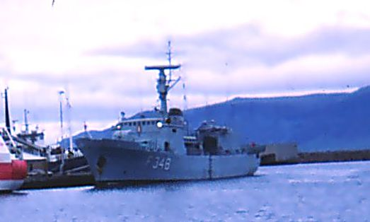 The danish naval ship F348 Hvidbjørnen in the harbour of Reykjavik, Iceland, September 1984.